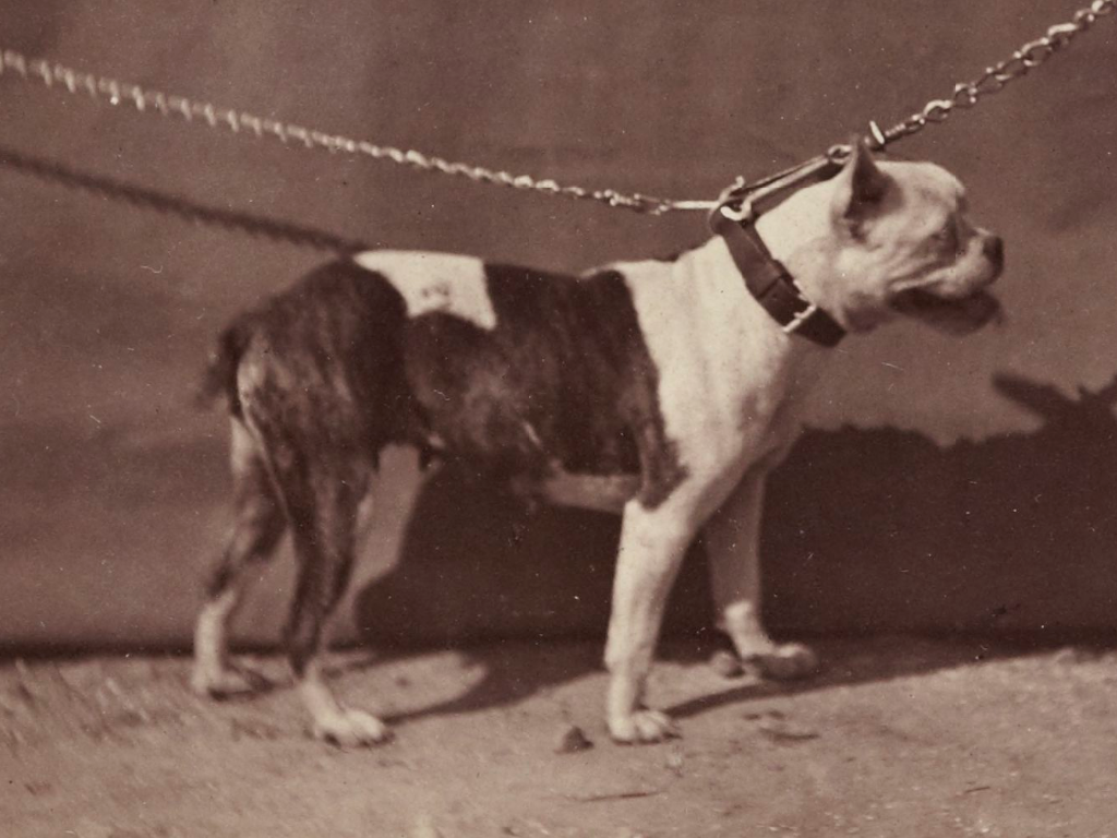 “Zoological garden of acclimatization (Bois de Boulogne). Dog show (May 1863). L. CREMIÈRE, PHOTO from the House of the Emperor, 28, rue de Laval. PARIS. 1st PRIZE Gold Medal. 1 Category. Name: Skidam. 5 Class. Owner: Mr. Petis. Breed: Bull-Dog. 10 ”